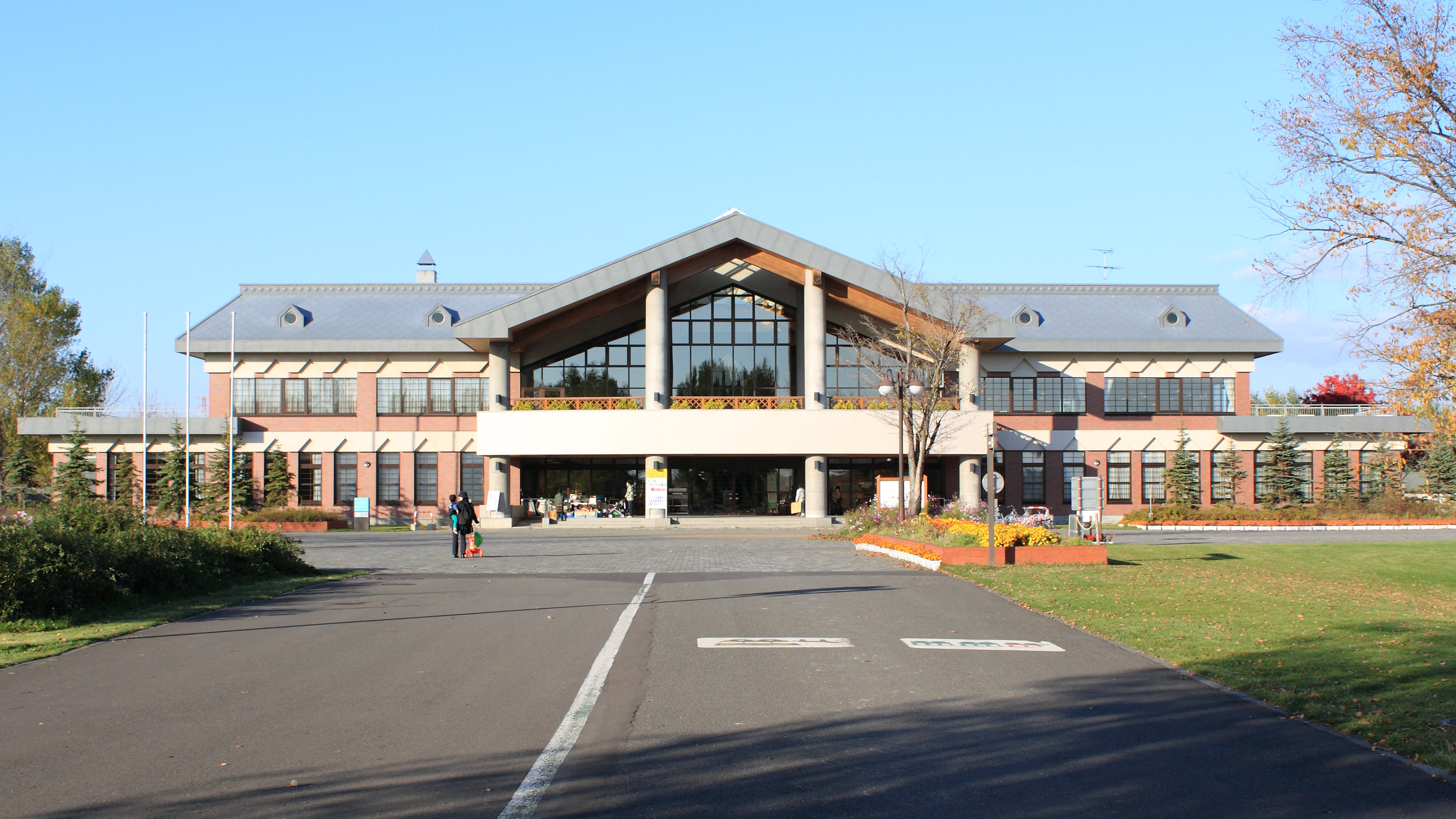 Sapporo Satoland center house